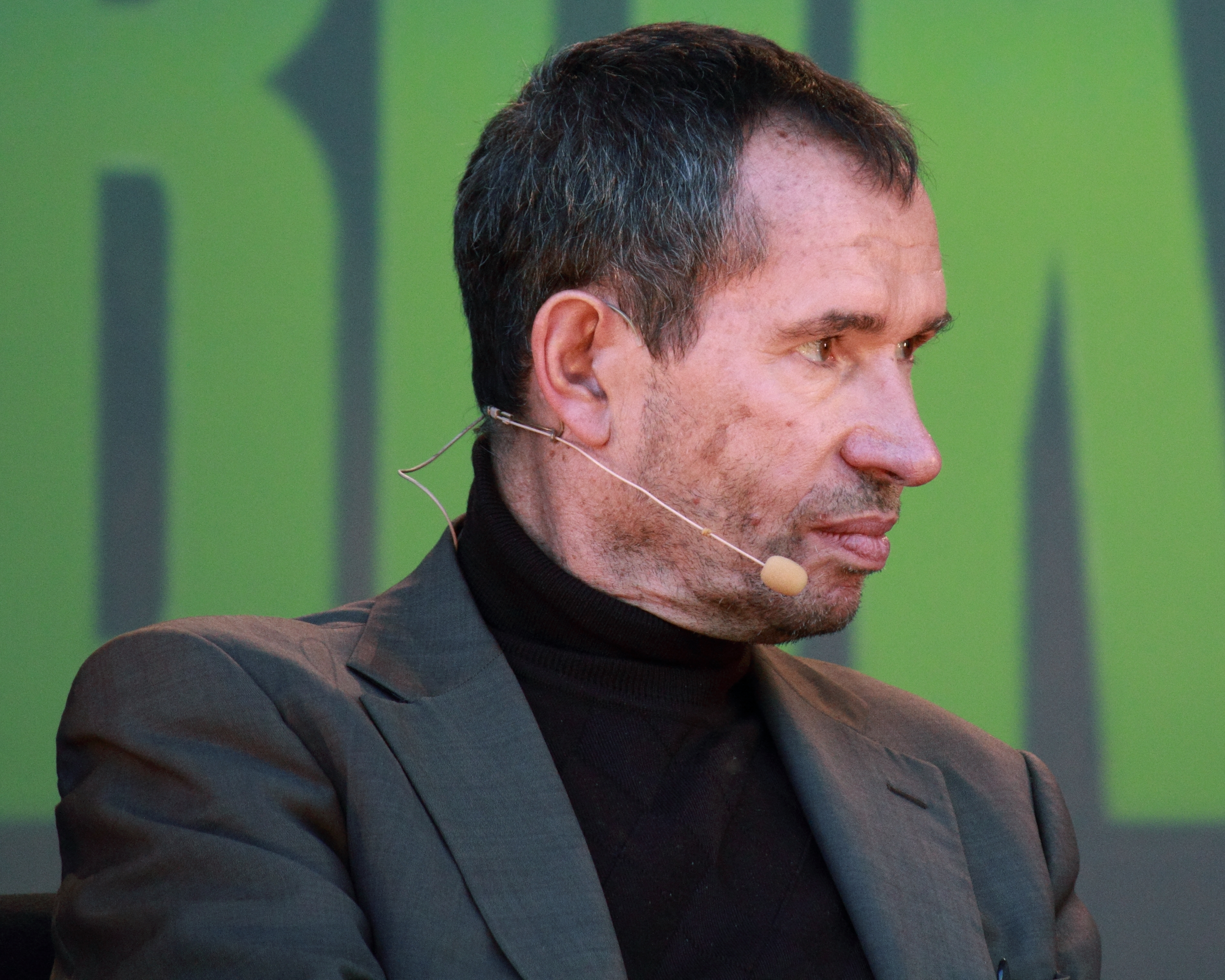 Carsten Jensen at the Oslo Book Festival